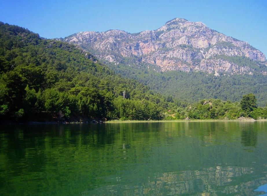 Lake Köyceğiz, south-west Turkey